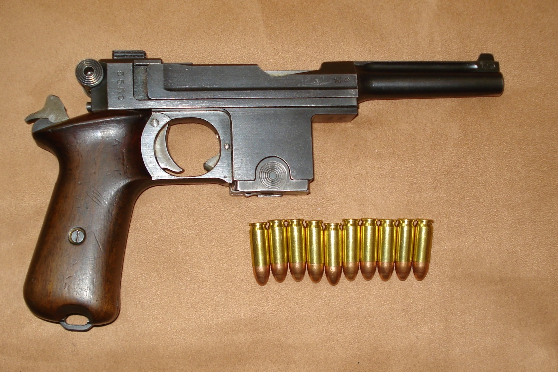 Danish 9 mm Bergmann M1910/21 pistol, right view.